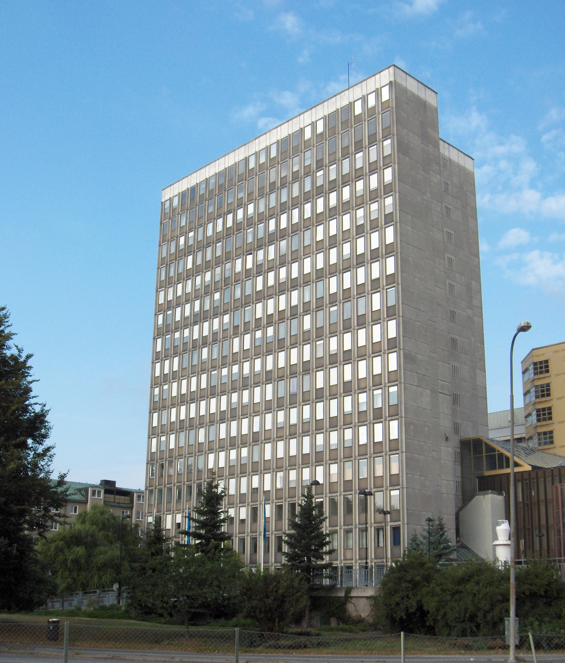 Solna town hall, Solna, Sweden.